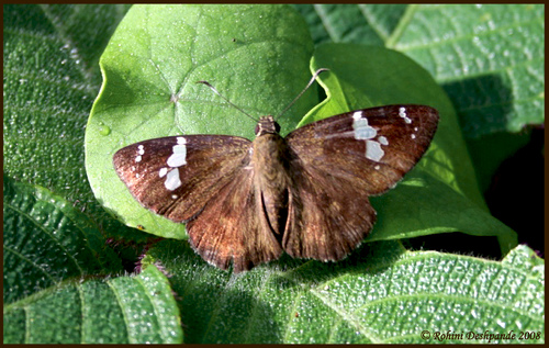 Tamil Spotted Flat. Taken at Coorg(Kakkabe), Karnataka, India.